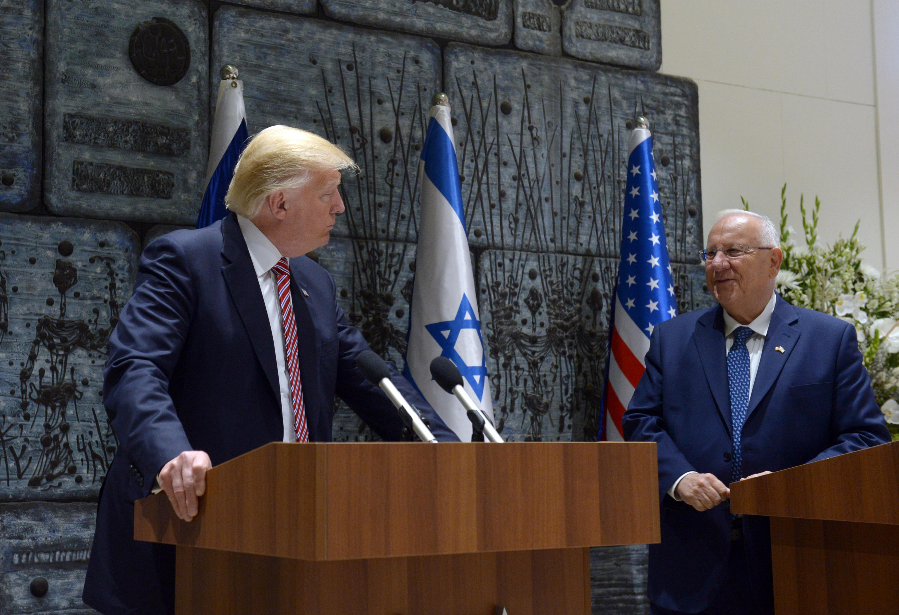 נשיא מדינת ישראל ראובן ריבלין ורעייתו נחמה מקבלים את נשיא ארה"ב דולנד טראמפ ורעייתו מלינה